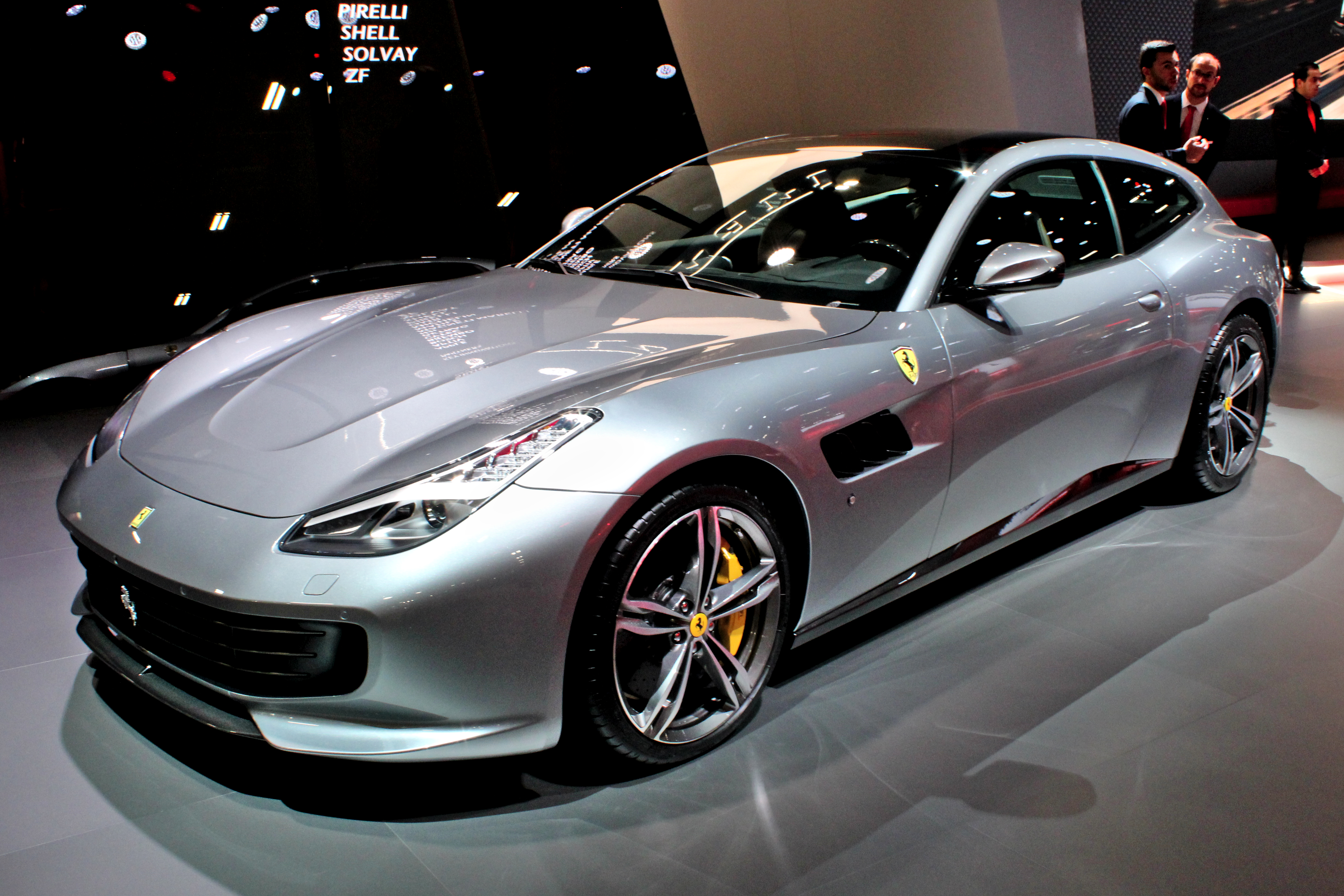 Ferrari GTC4Lusso at Paris Motor Show 2018